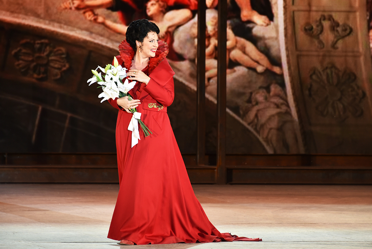 Tosca, Sankt Margarethen, 2015